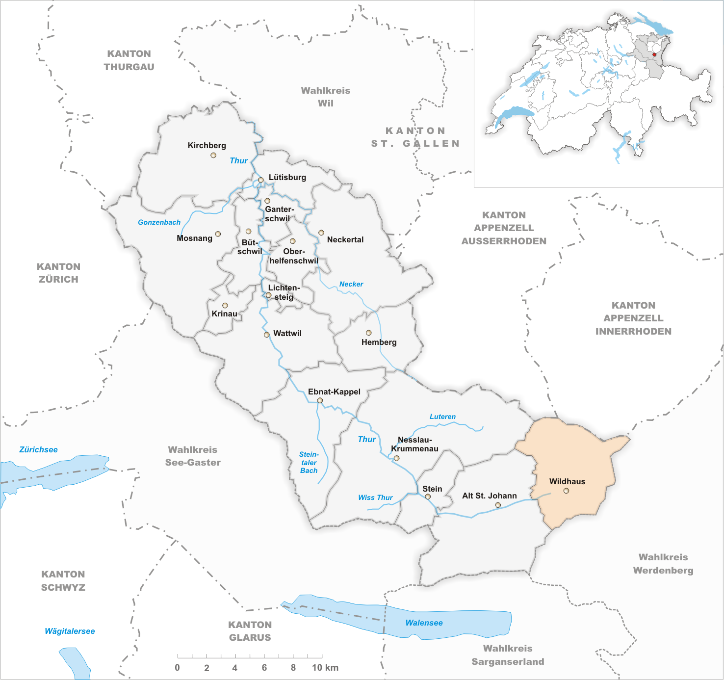 Municipality Wildhaus